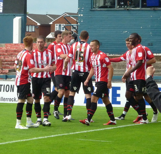 Sheffield United